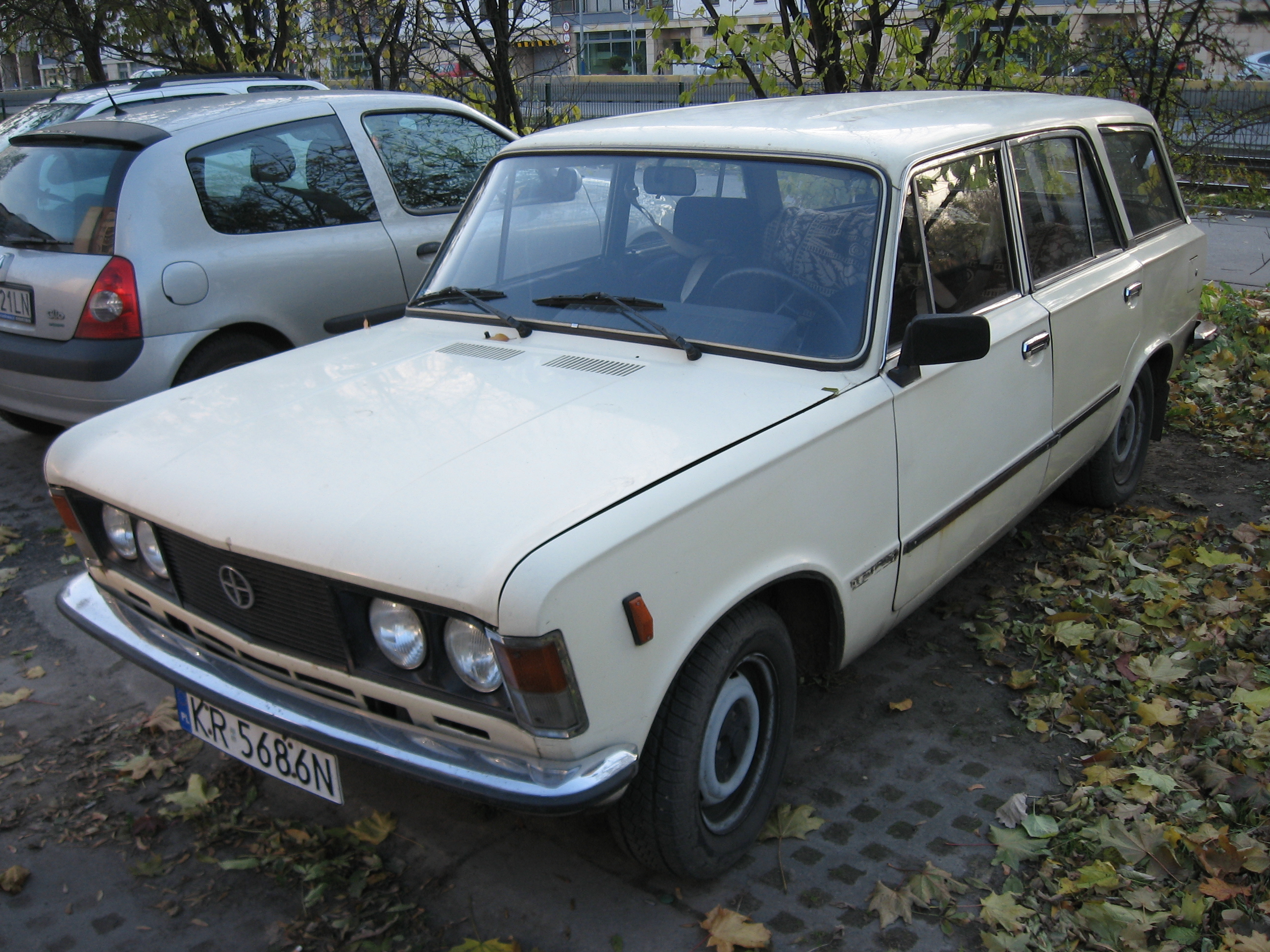 Beige FSO 125p Kombi on parking lot at Osiedle Podwawelskie in Kraków. This particular example was produced between April 1984 and January 1986.